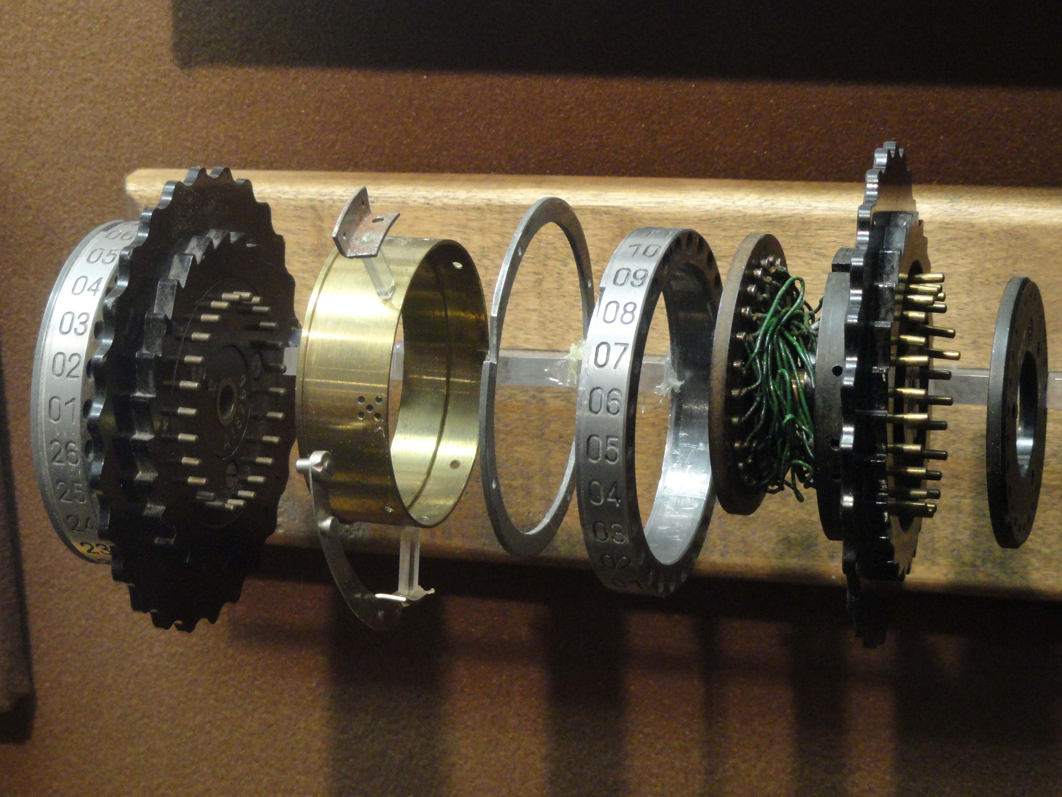 Exhibit in the National Cryptologic Museum, Fort Meade, Maryland, USA. All items in this museum are unclassified; items created by the United States Government are not subject to copyright restrictions.